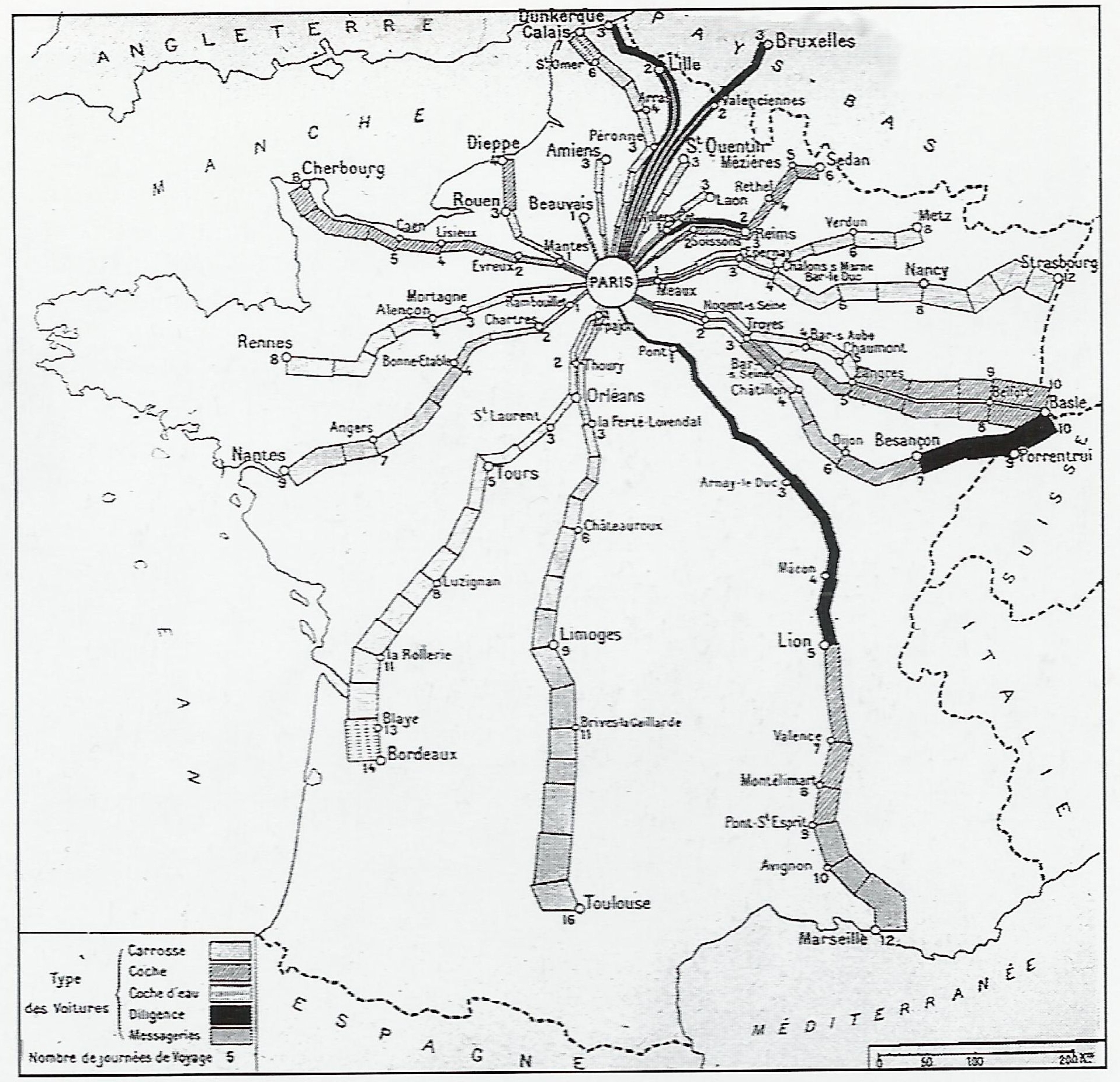 Map of France showing travel times (in days) from Paris to main cities, as well as mode of transport, in 1765.